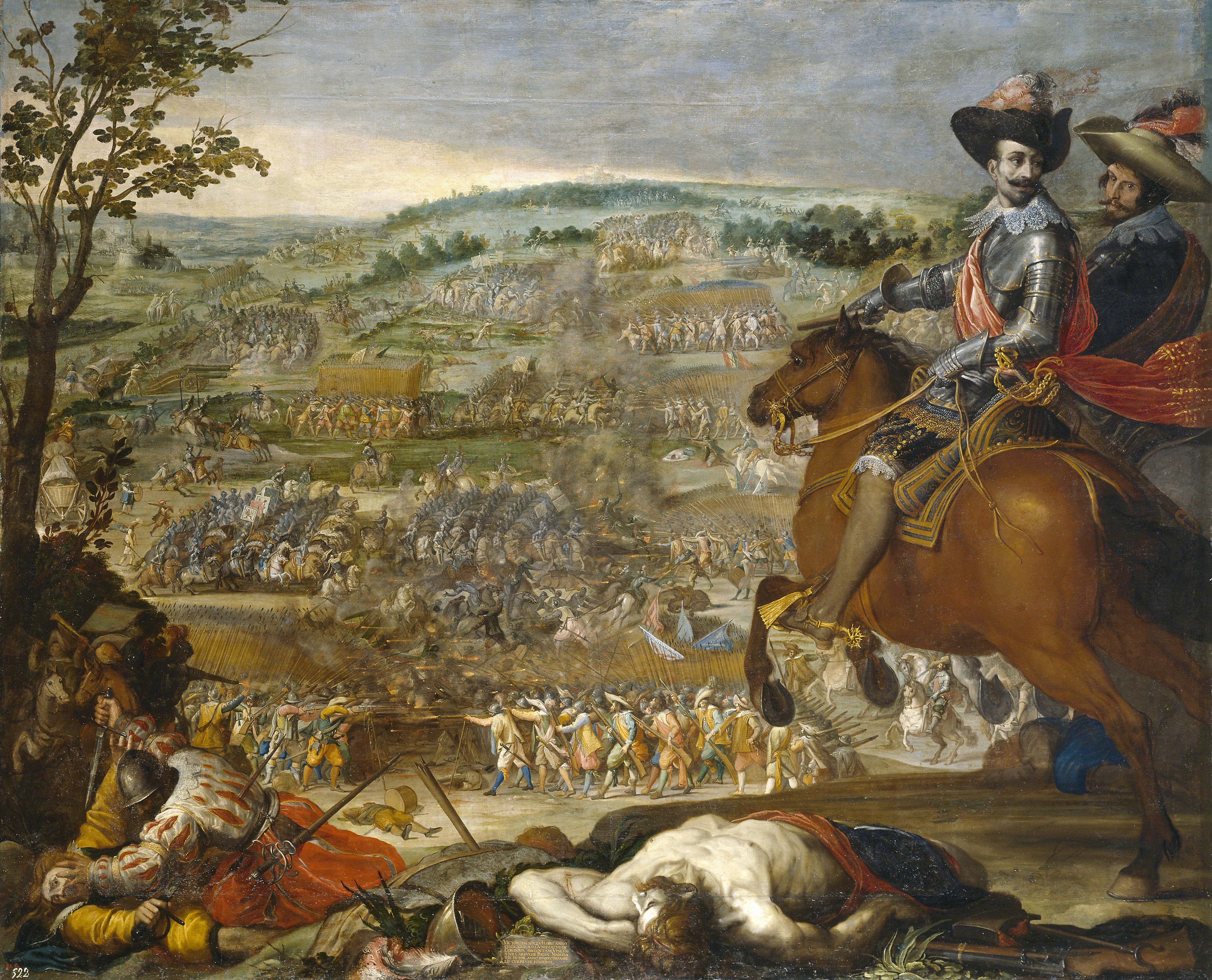 Battle of Fleurus